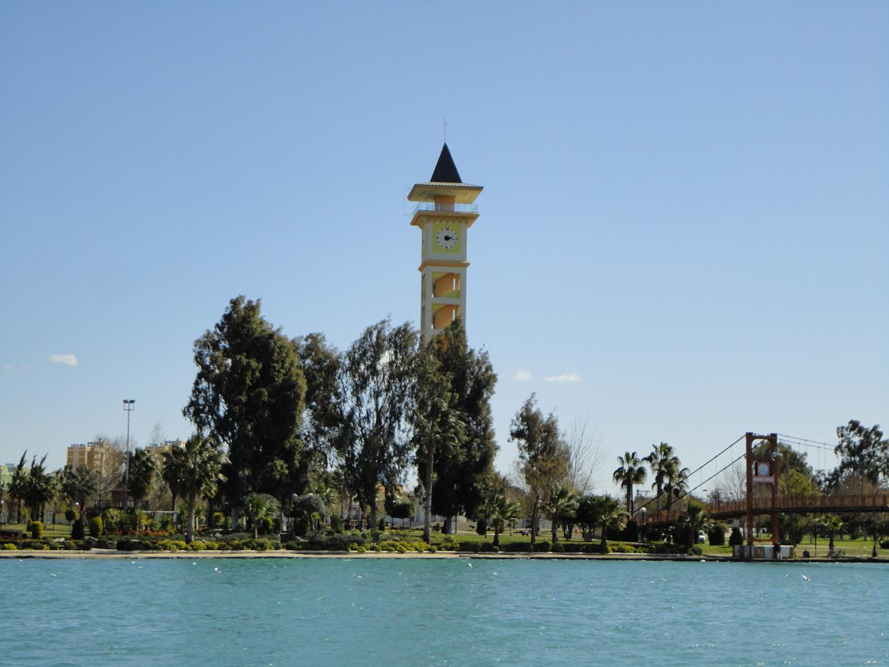 Merkez Park Clock Tower in Adana